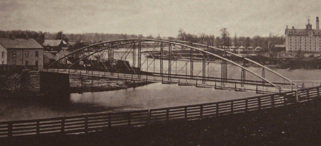 Blackfriars Street Bridge. View of original iron bridge structure, with Carling Brewery in distance. London, Ontario, Canada. The image shows the bridge's situation and original lighter form.